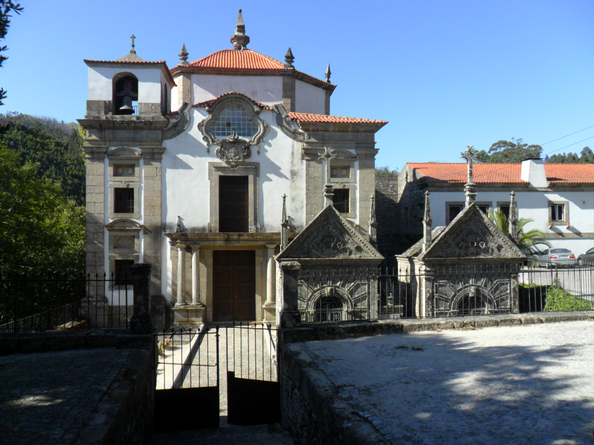 This file was uploaded for Wiki Loves Monuments in Portugal with the unique identifier 72114.